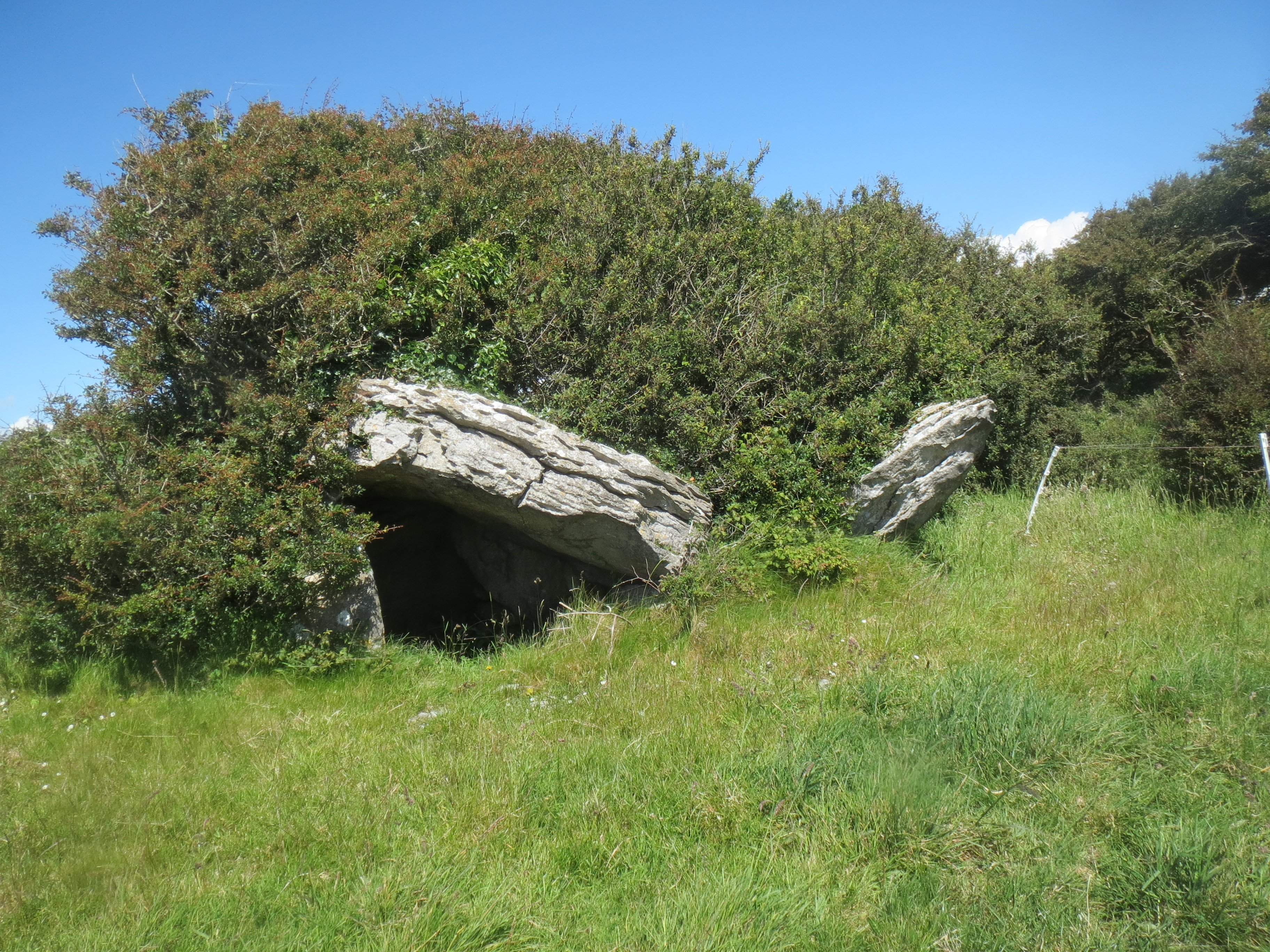 Ballynacloghy Portal Tomb